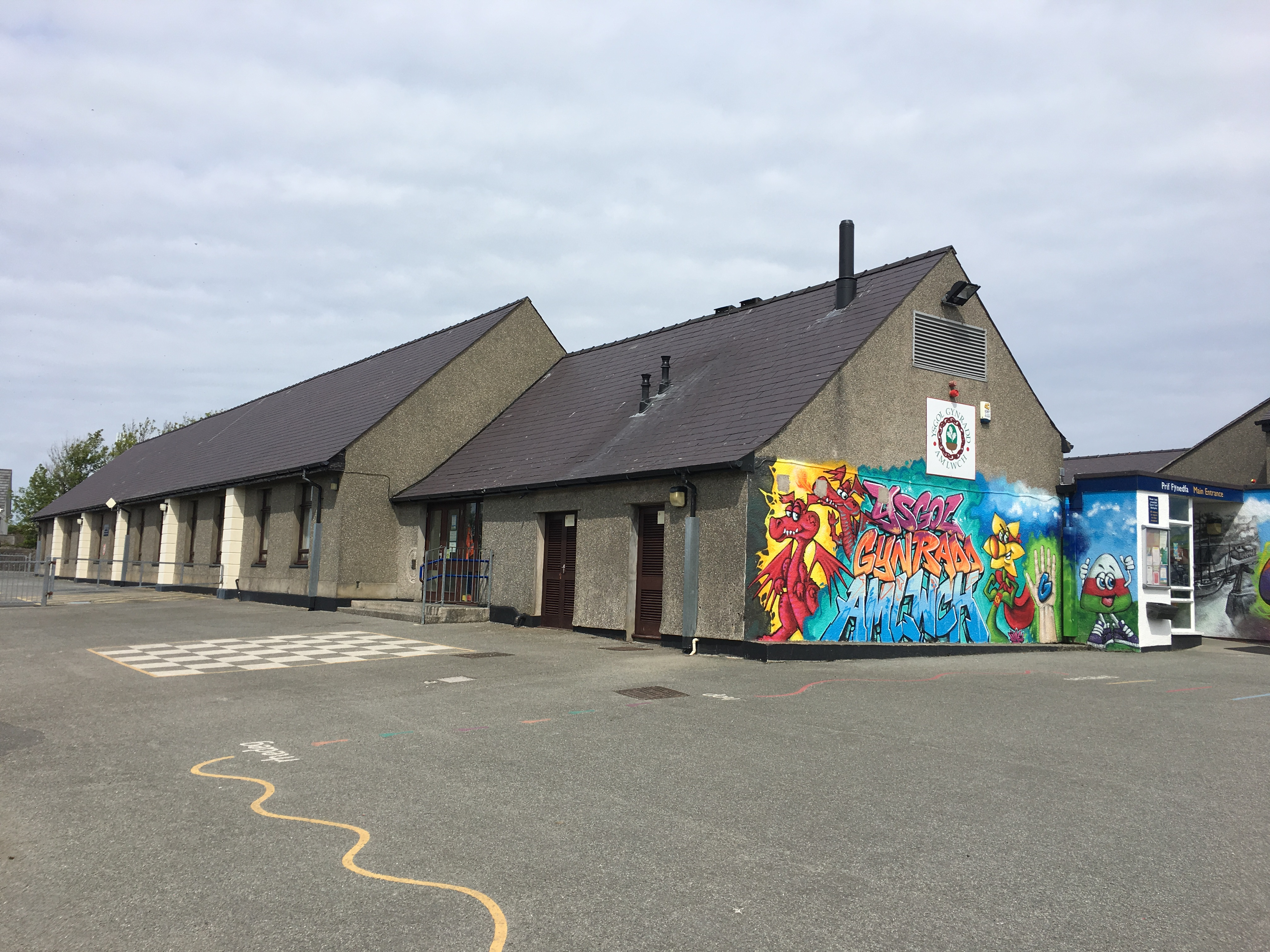 Ysgol Gynradd Amlwch